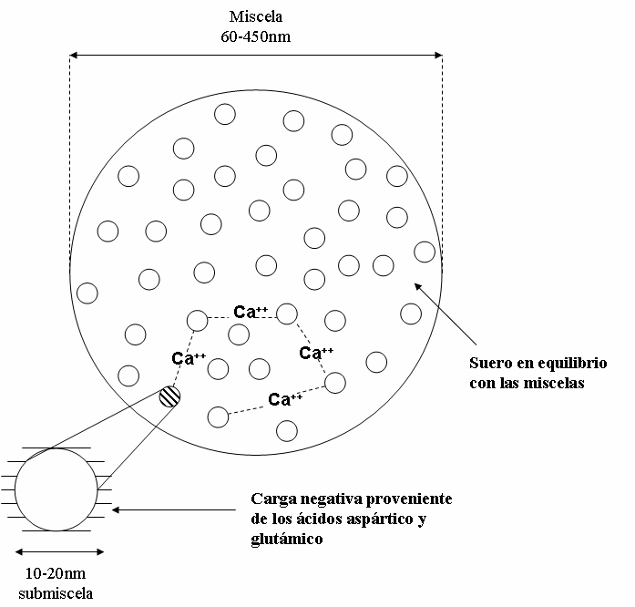 Image based on the book Química de Alimentos made by xply de most accepted model about the milk structure.